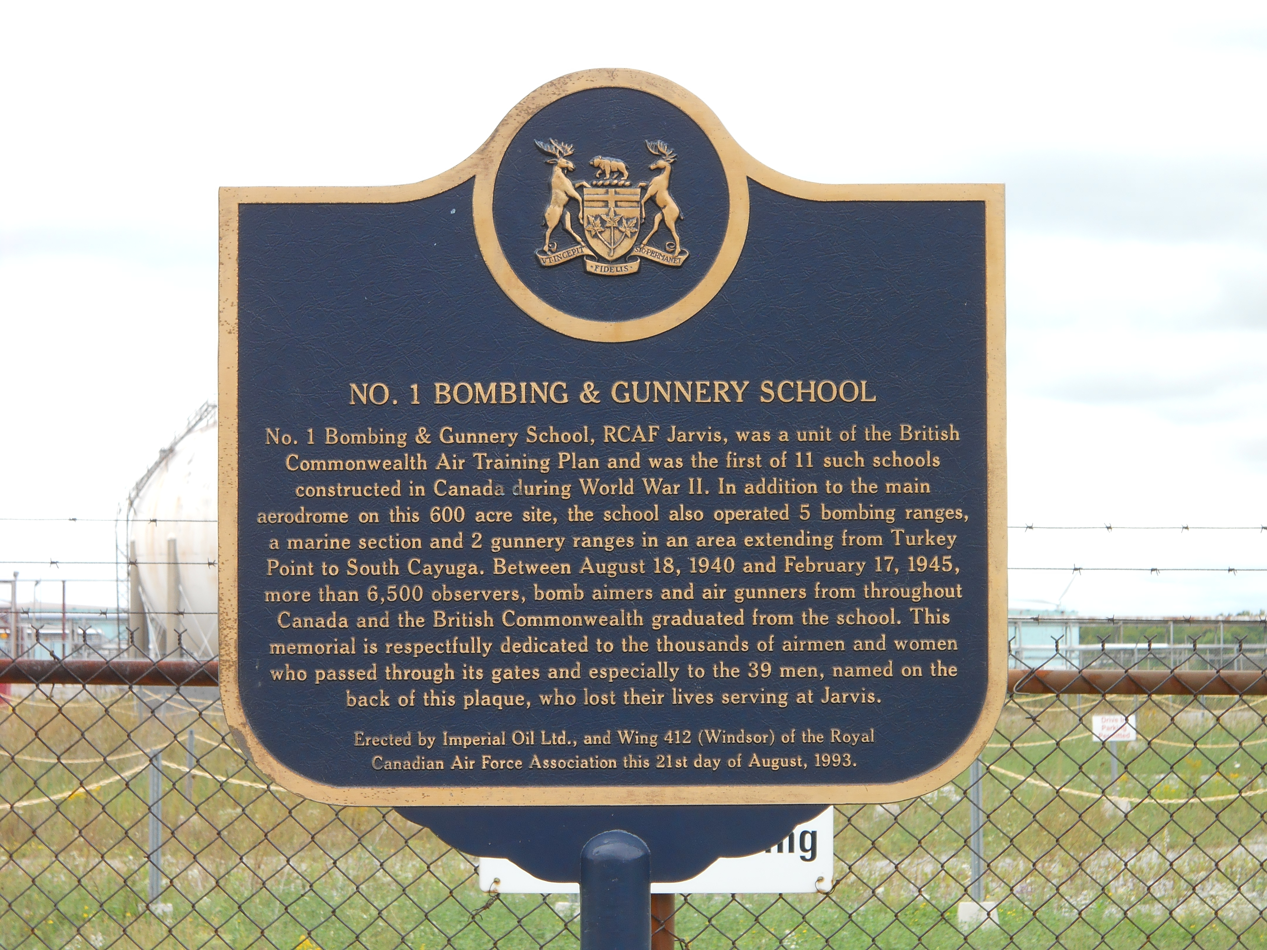 Very good description of B & G School. One of the reasons Jarvis was the first B&GS is that American Airlines established an emergency landing field on this site in 1934, complete with north-south runway, beacon light, and radio facilities. Jarvis lies directly on Buffalo-Detroit AA route. - Schreyer, CAHS, Fall? 1978